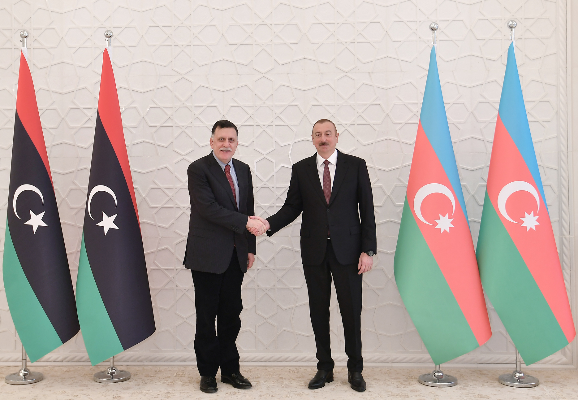 Ilham Aliyev met with Prime Minister of Libya Fayez al-Sarraj